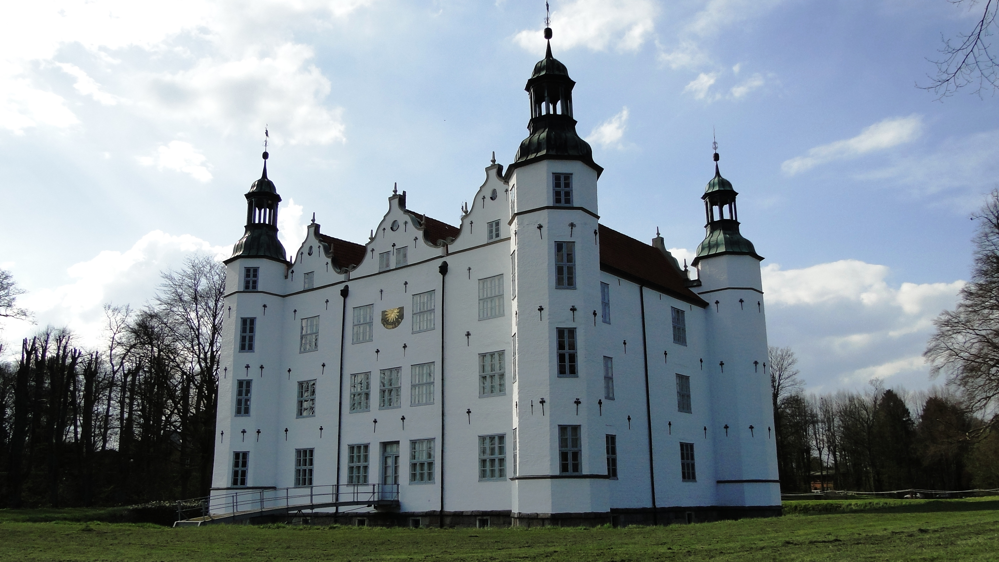 Schloss Ahrensburg in Schleswig-Holstein, near Hamburg, 2012